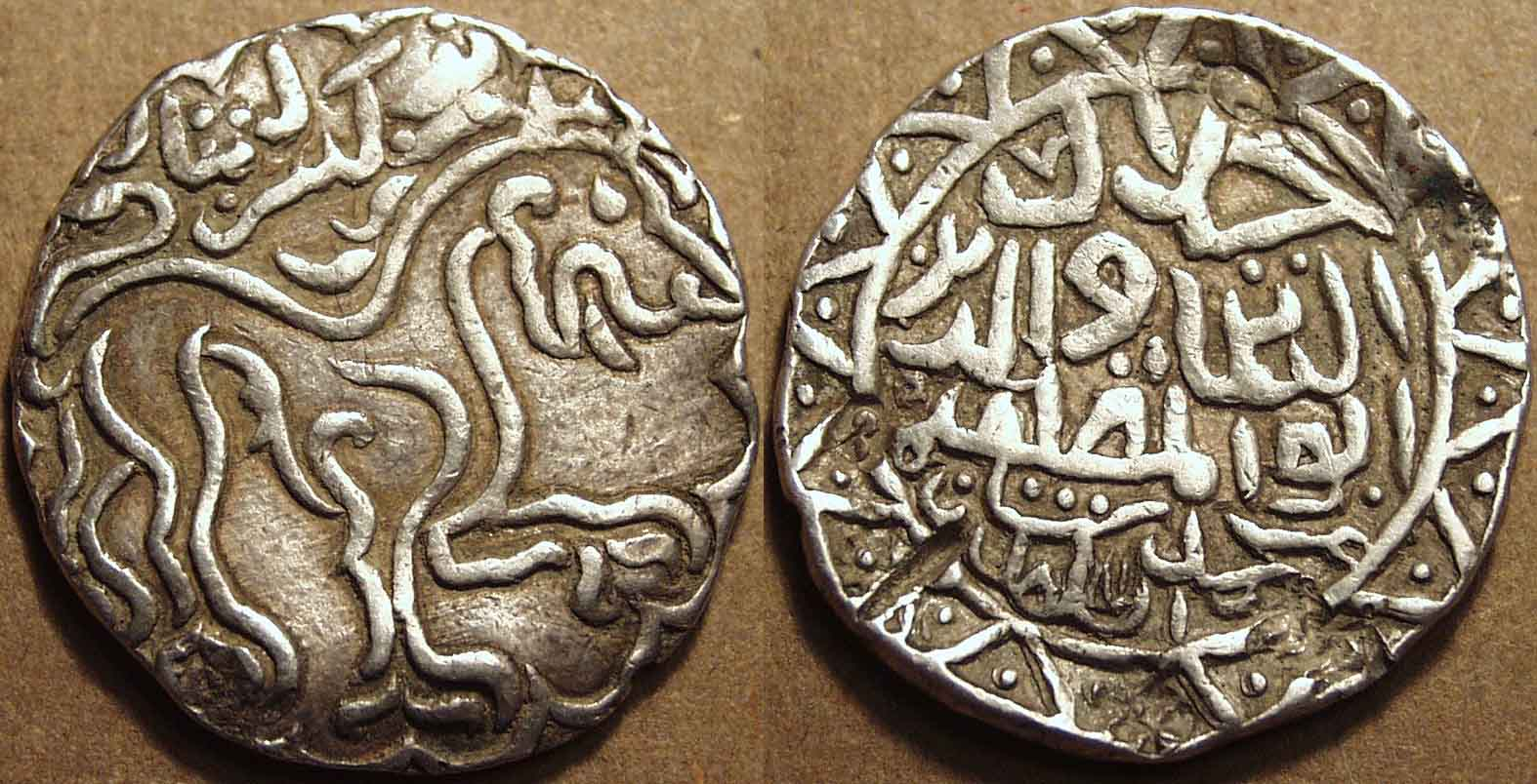 Silver tanka of the Bengal Sultanate ruler Jalaluddin Muhammad, showing a lion.